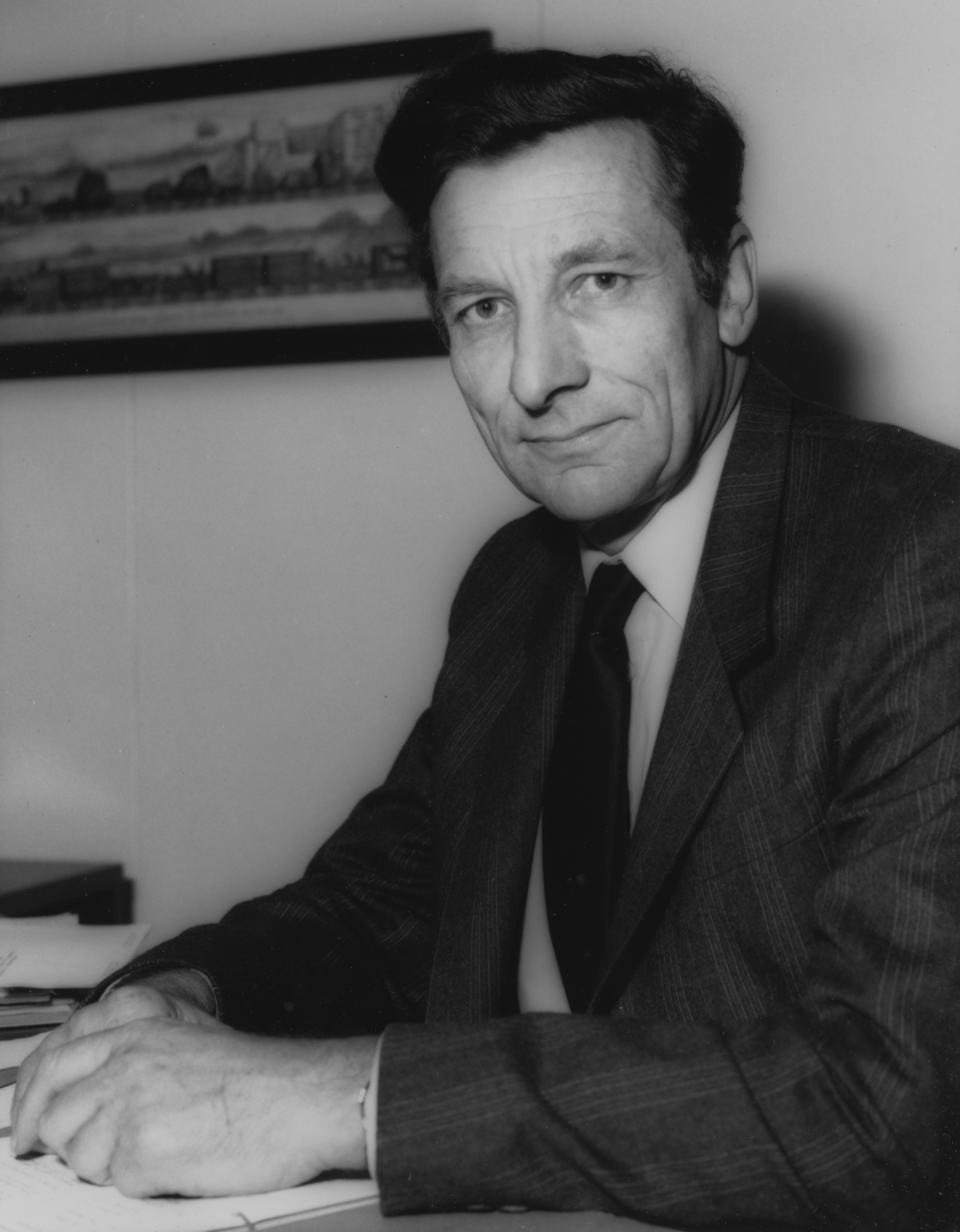 Professor of Statistics 1973-1993, Pro-Director 1988-1991 IMAGELIBRARY/1286 Persistent URL